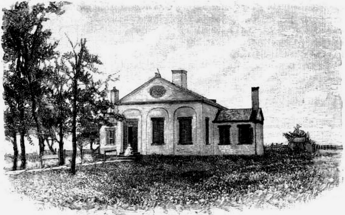 House built by Alfred Kelley in Cleveland, Ohio, in the United States about 1814.